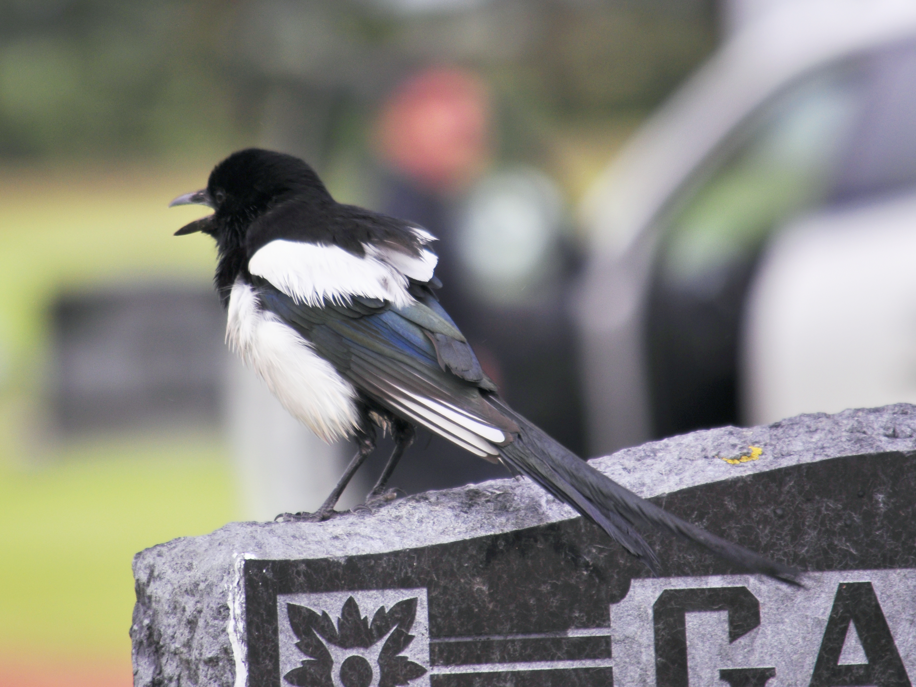 Back view of a black-billed magpie, 2013